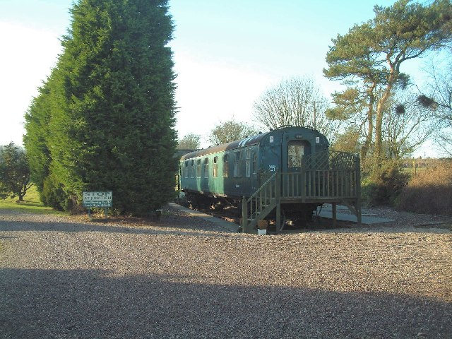 Old railway station. Parked precisely where Stravithie railway station once was, this refurbished passenger coach now provides luxurious residential accommodation for visitors to the adjacent Guest House